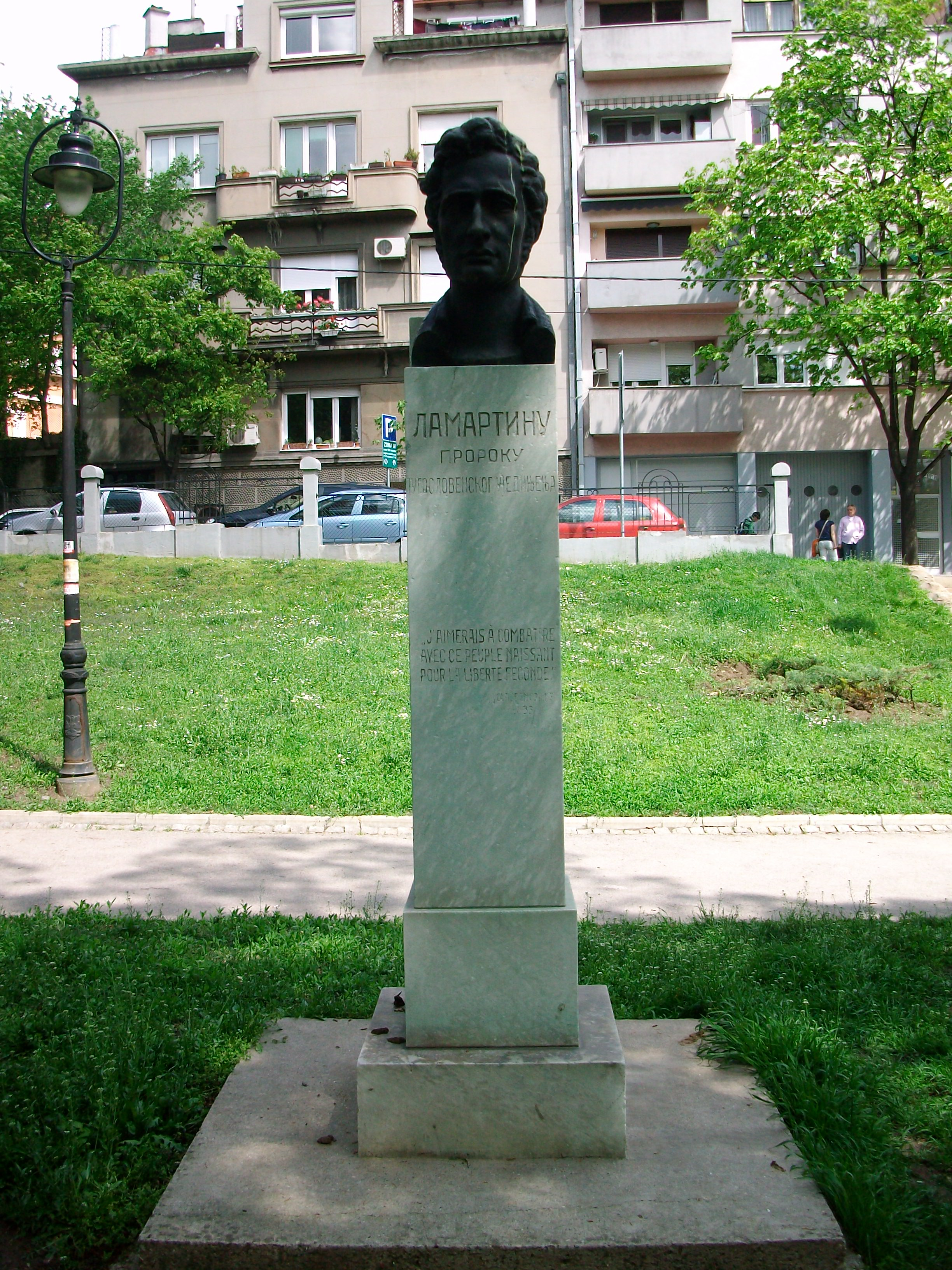 Monument to prophet Lamartin